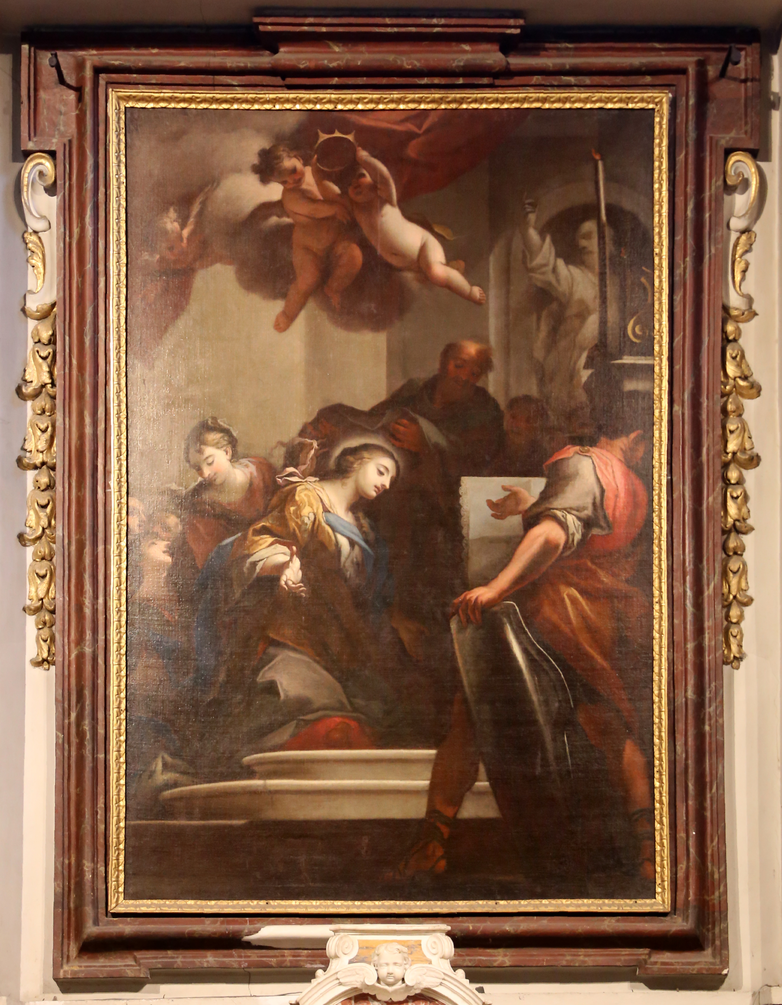 Ognissanti (Florence) - Interior